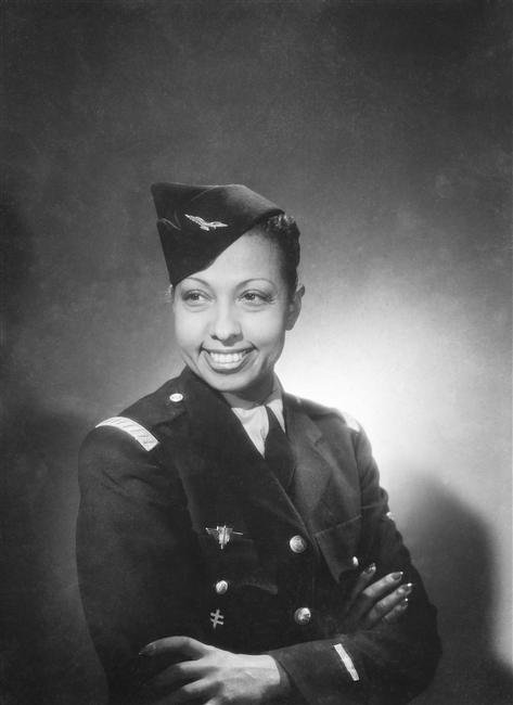 Studio photo